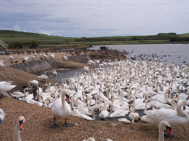 Abbotsbury Swannery Feeding time!